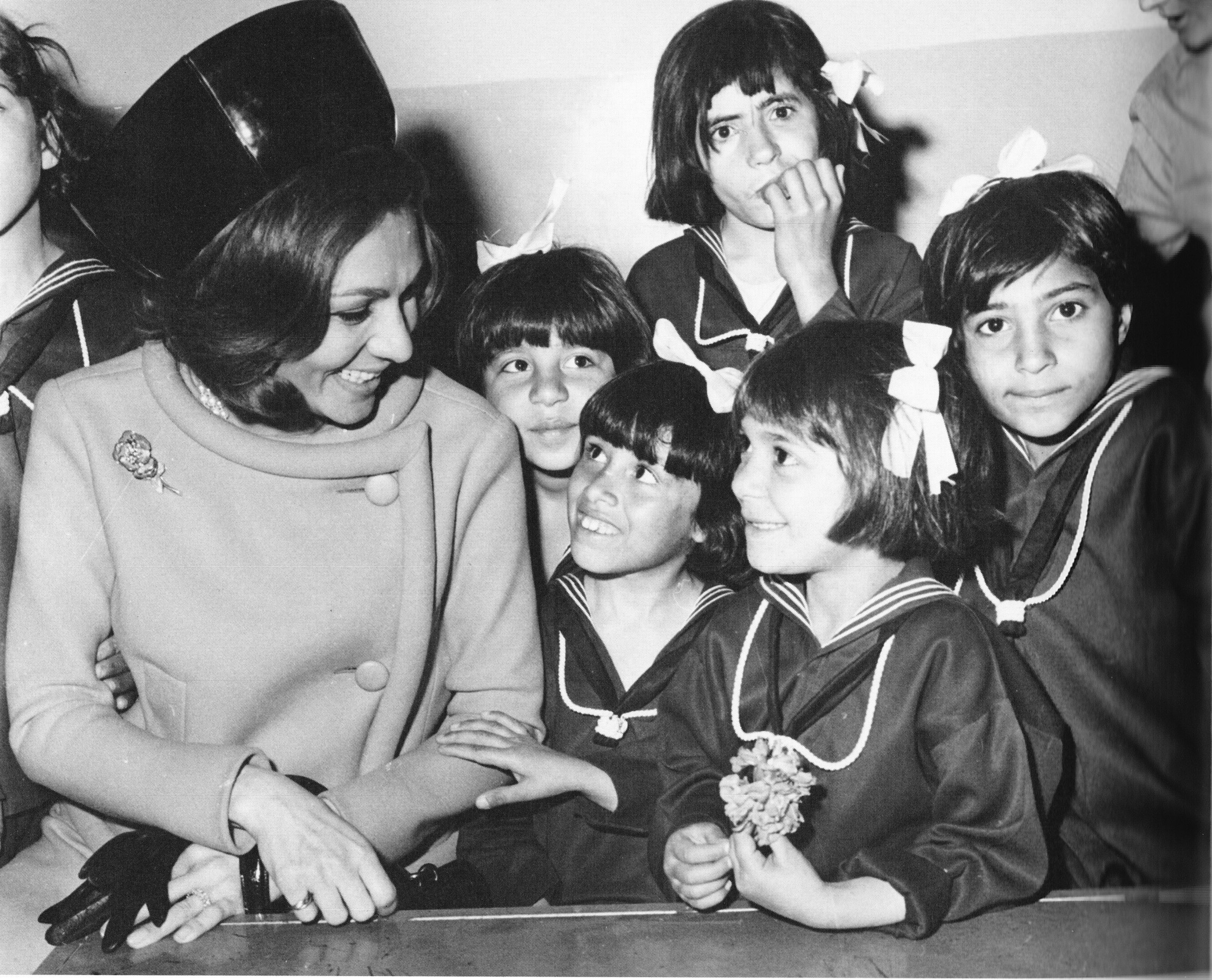 Shahbanu Farah Pahlavi visits an orphanage in Khoramshahr run by Farah Pahlavi charity foundation, 1971